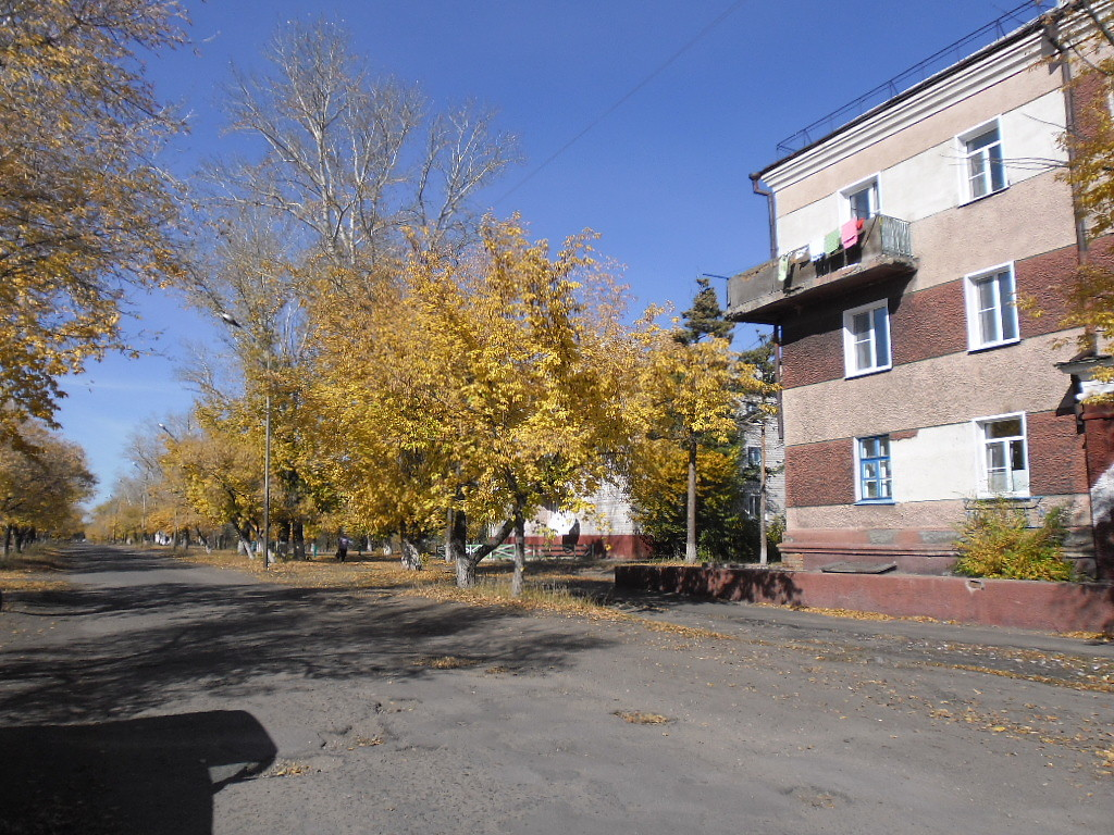 st.Central